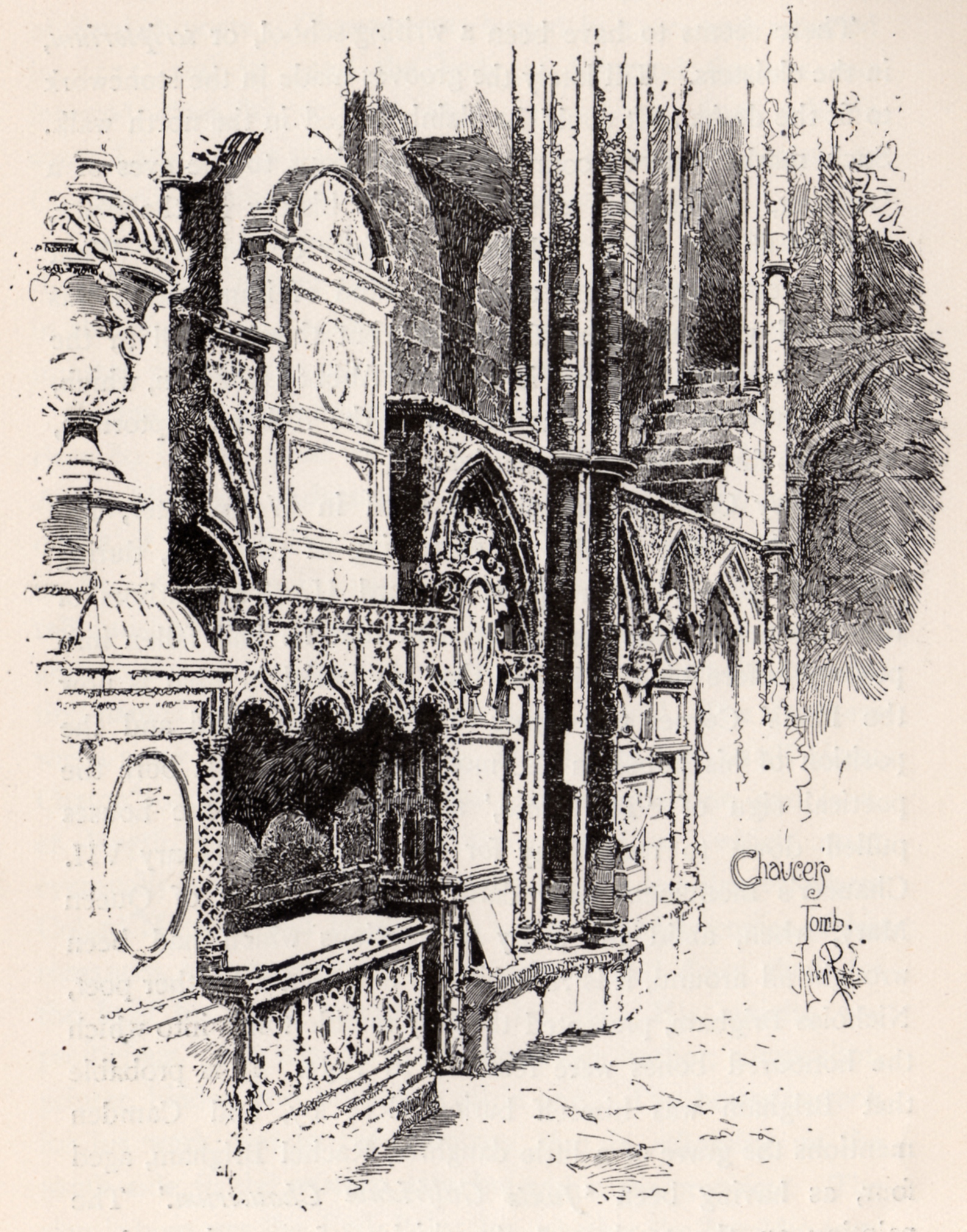 Illustration by Herbert Railton (1857-1910), from A Brief Account of Westminster Abbey (1894) by WJ Loftie